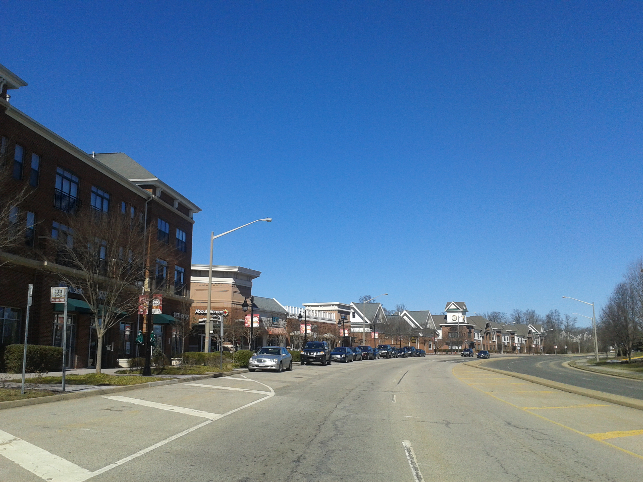 Lorton Station Road